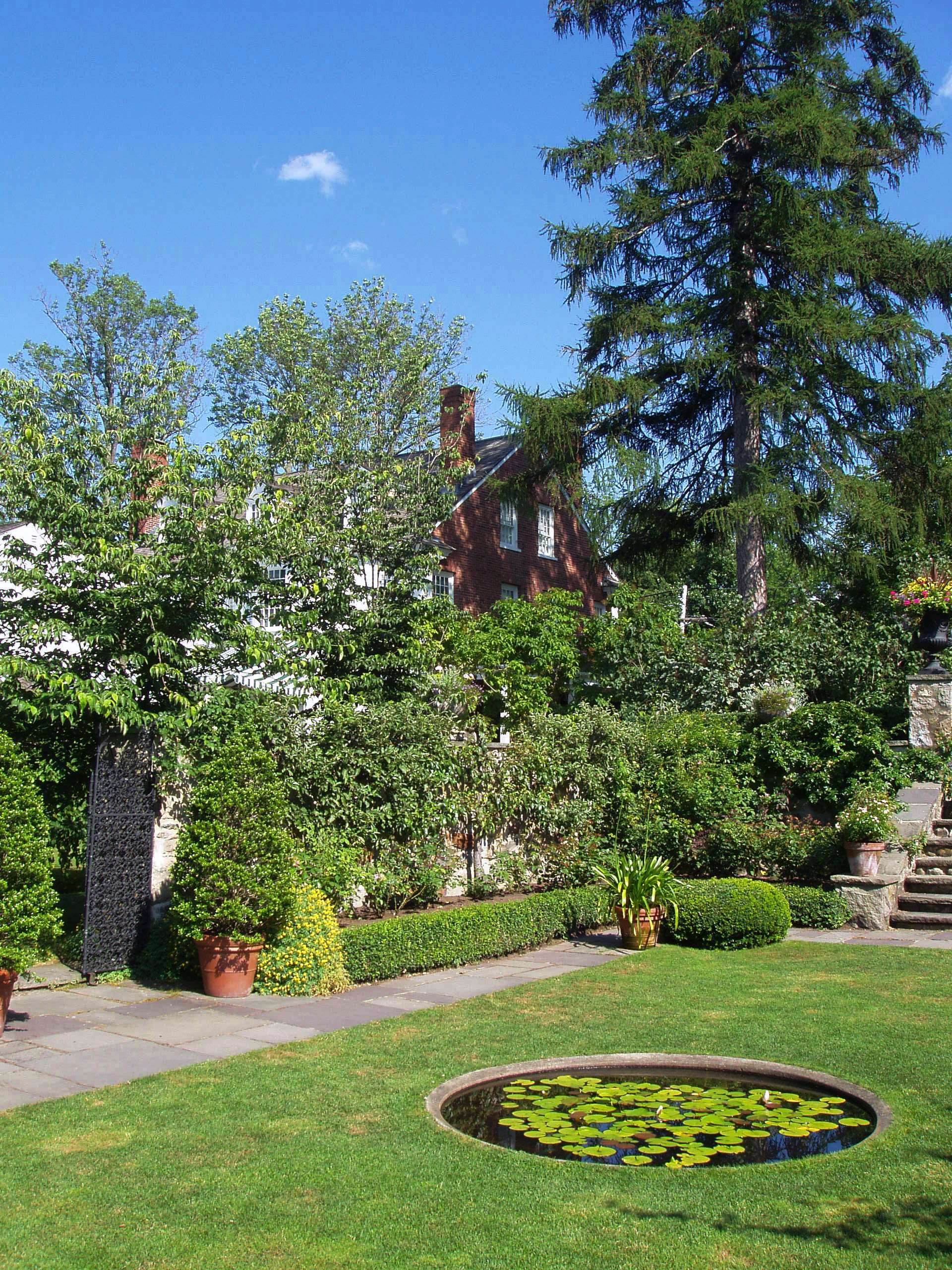 Stevens-Coolidge Place, Andover, Massachusetts (walled garden with house). Photograph taken by me, July 2005.